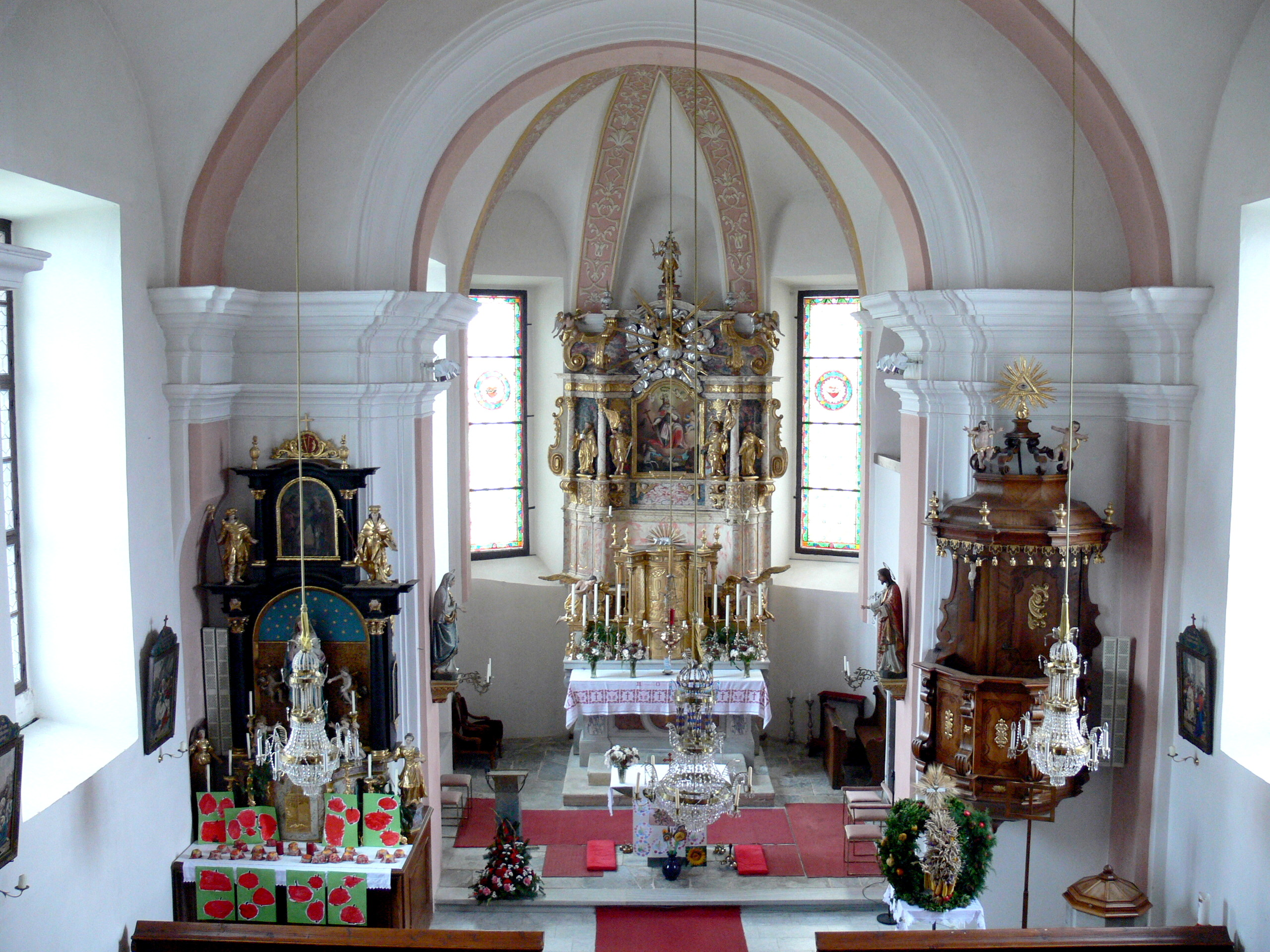 Parish church in Sankt Oswald ob Eibiswald ( Styria ). Interior.